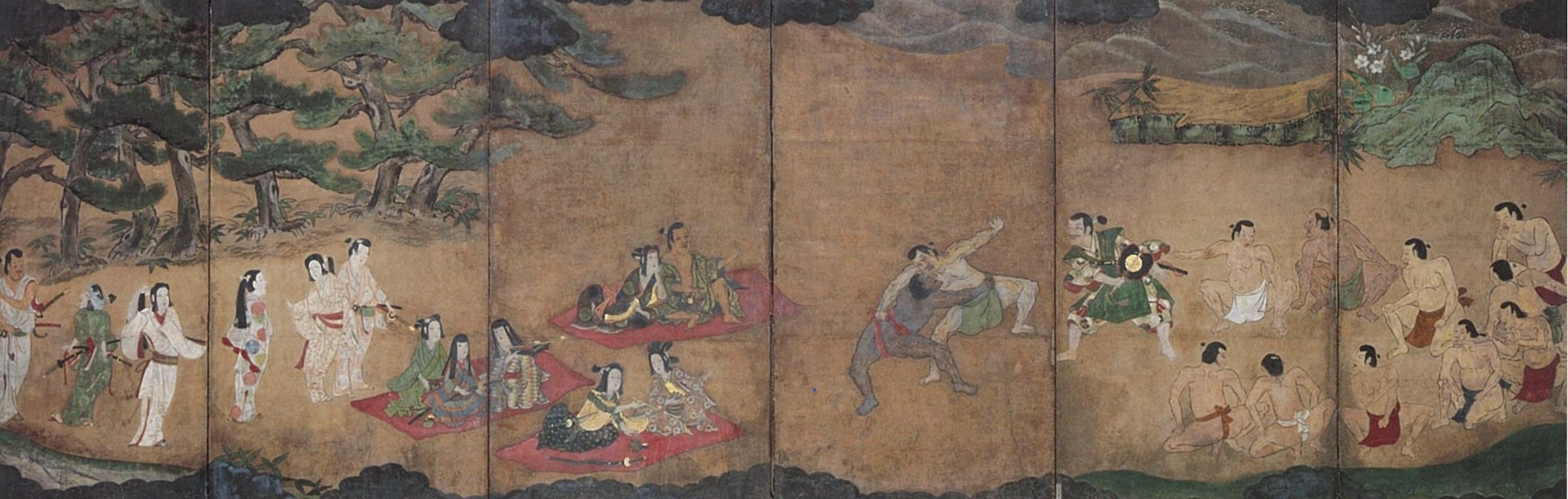 Sumō yūrakuzu byōbu. (Sakai City Museum)